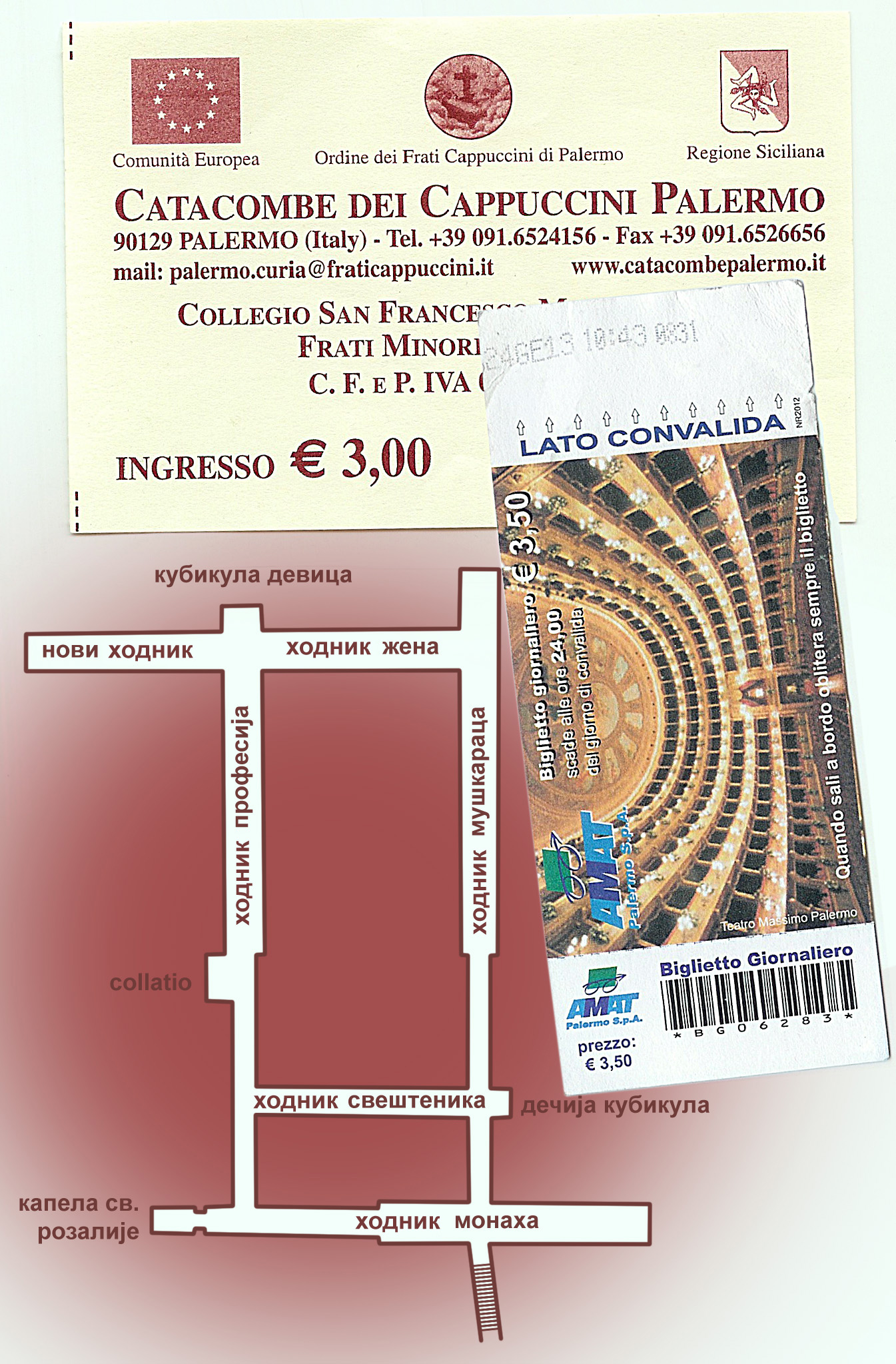 Plan of Capuchin catacombs (Palermo)